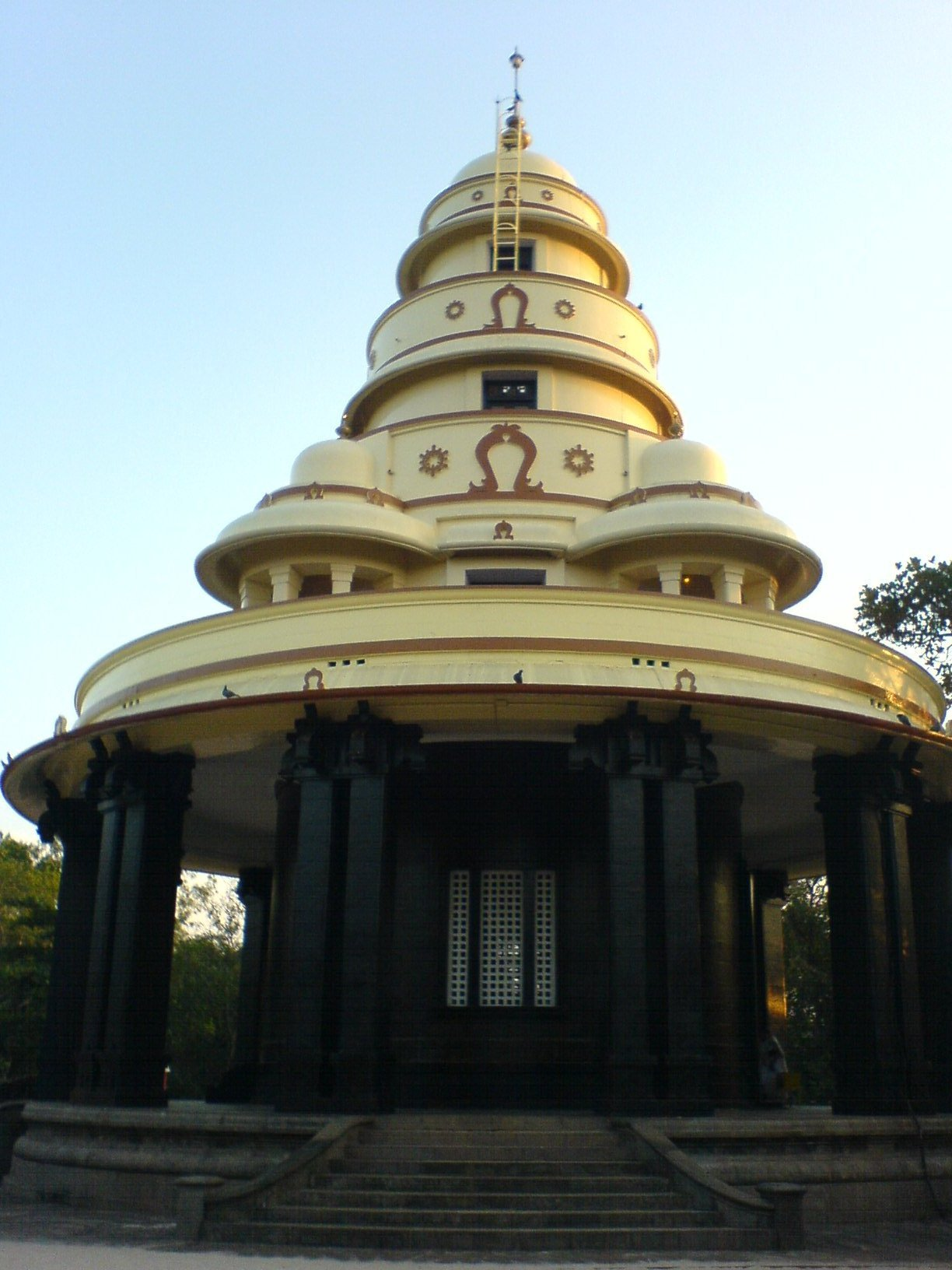 Sivagiri